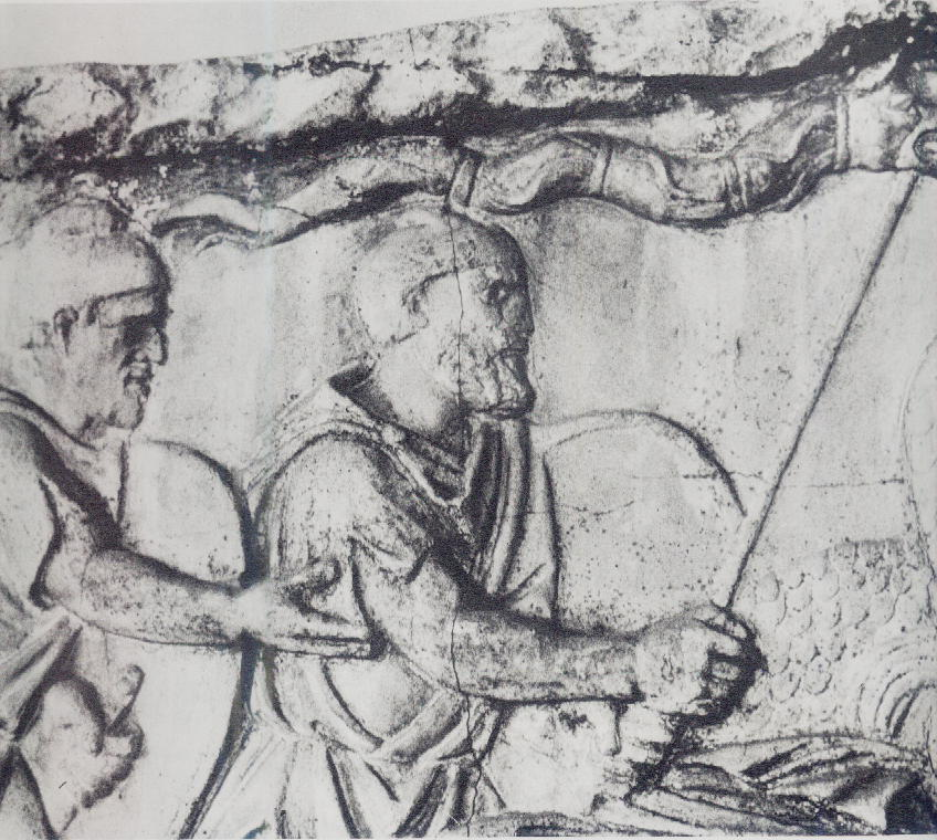 Reliefs of Trajan's Column.